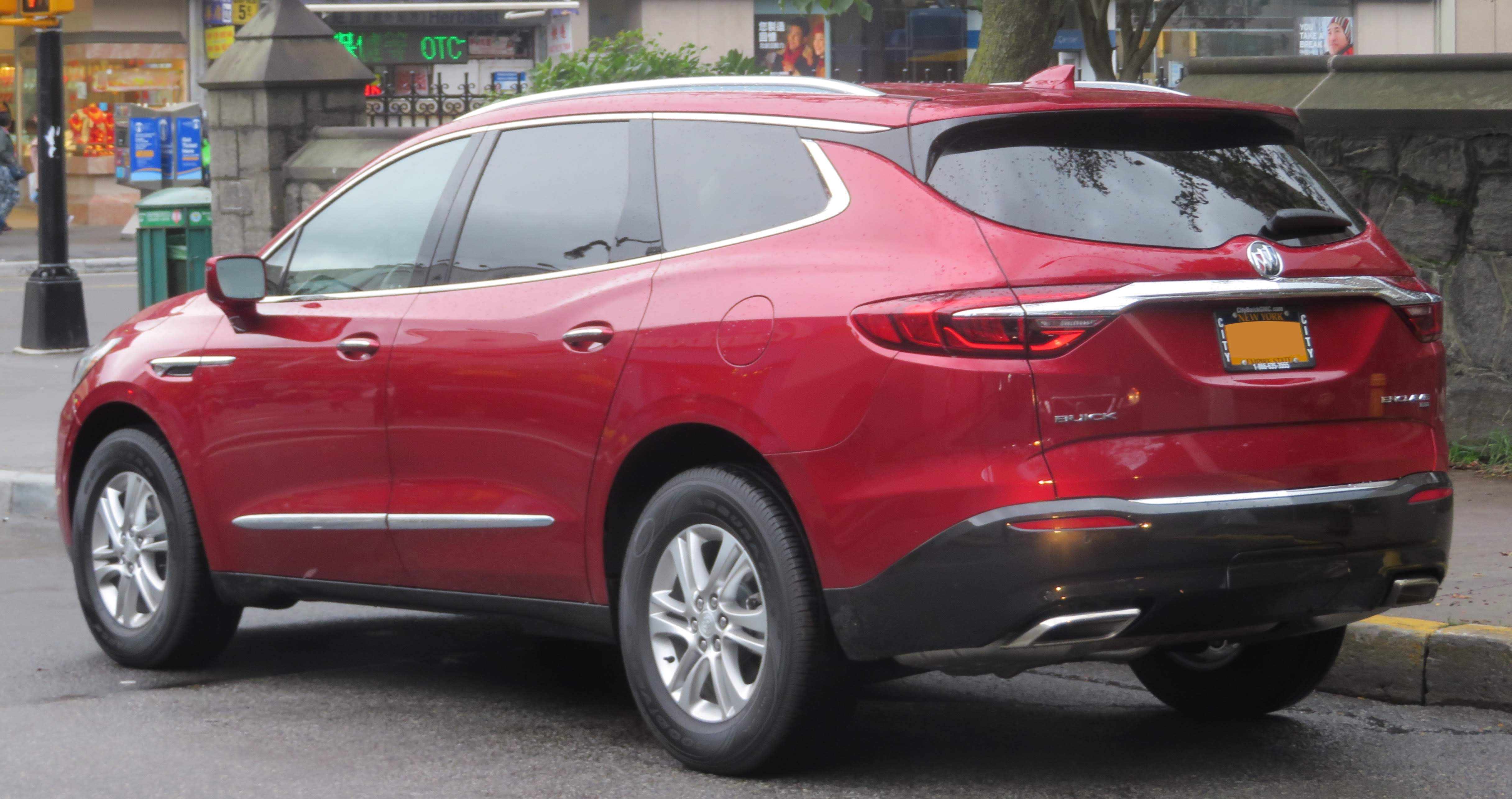 Photographed in Flushing, Queens, New York